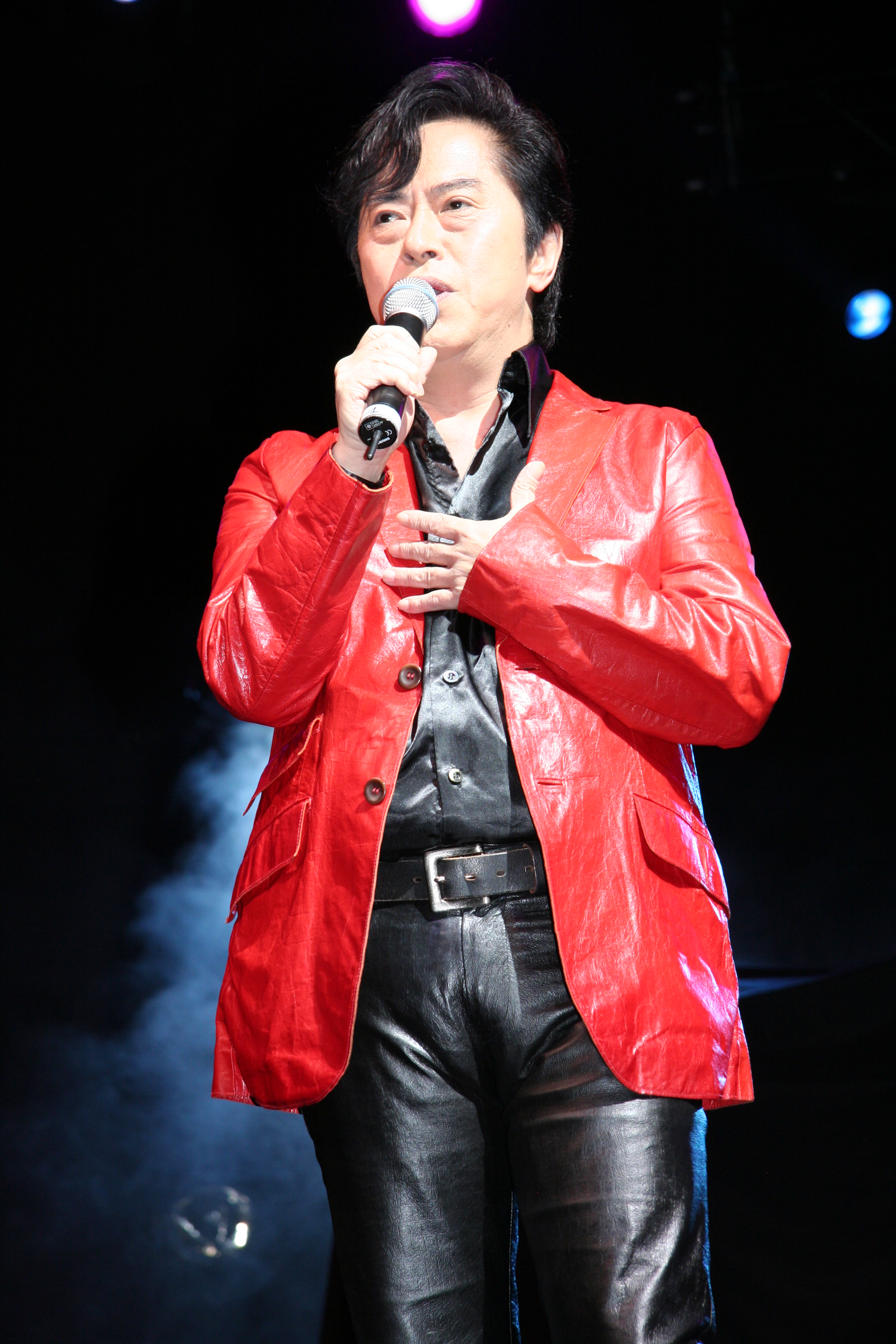 Ichiro Mizuki live at Japan Expo 2007 (Paris, France).